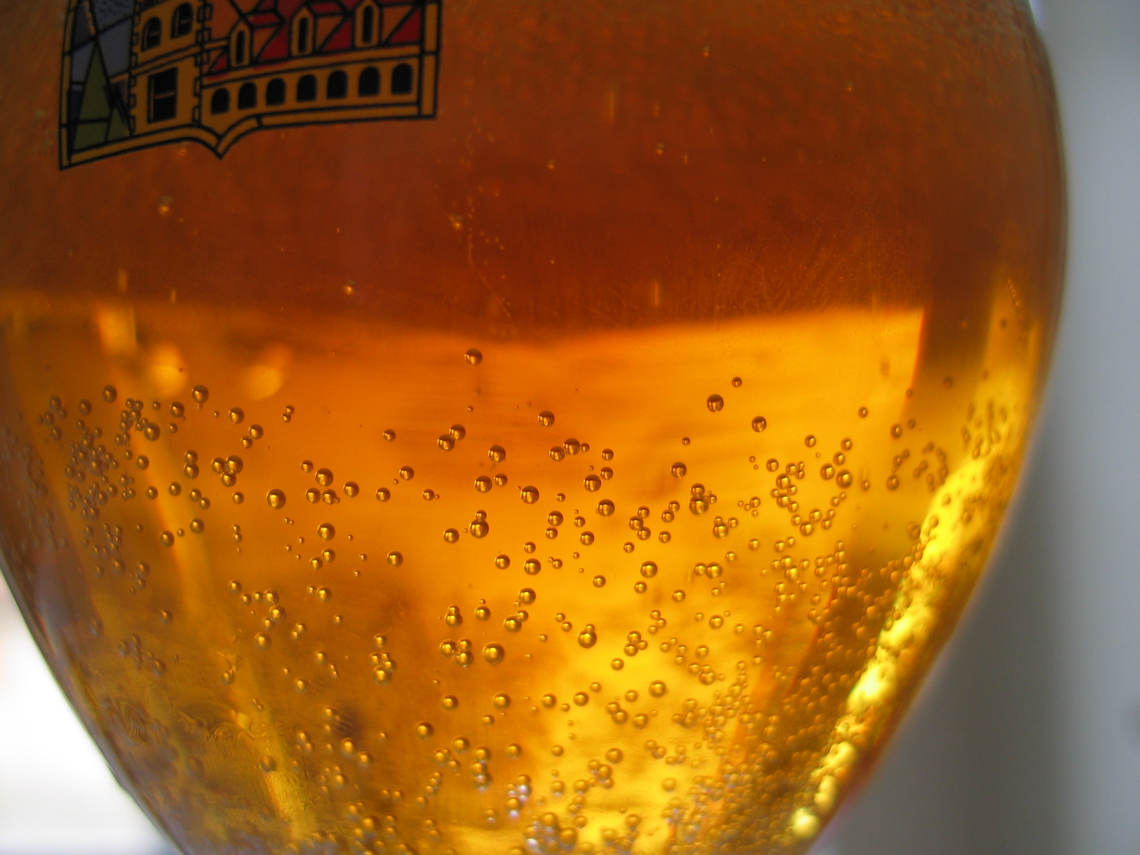 Belgium beer (Leffe)